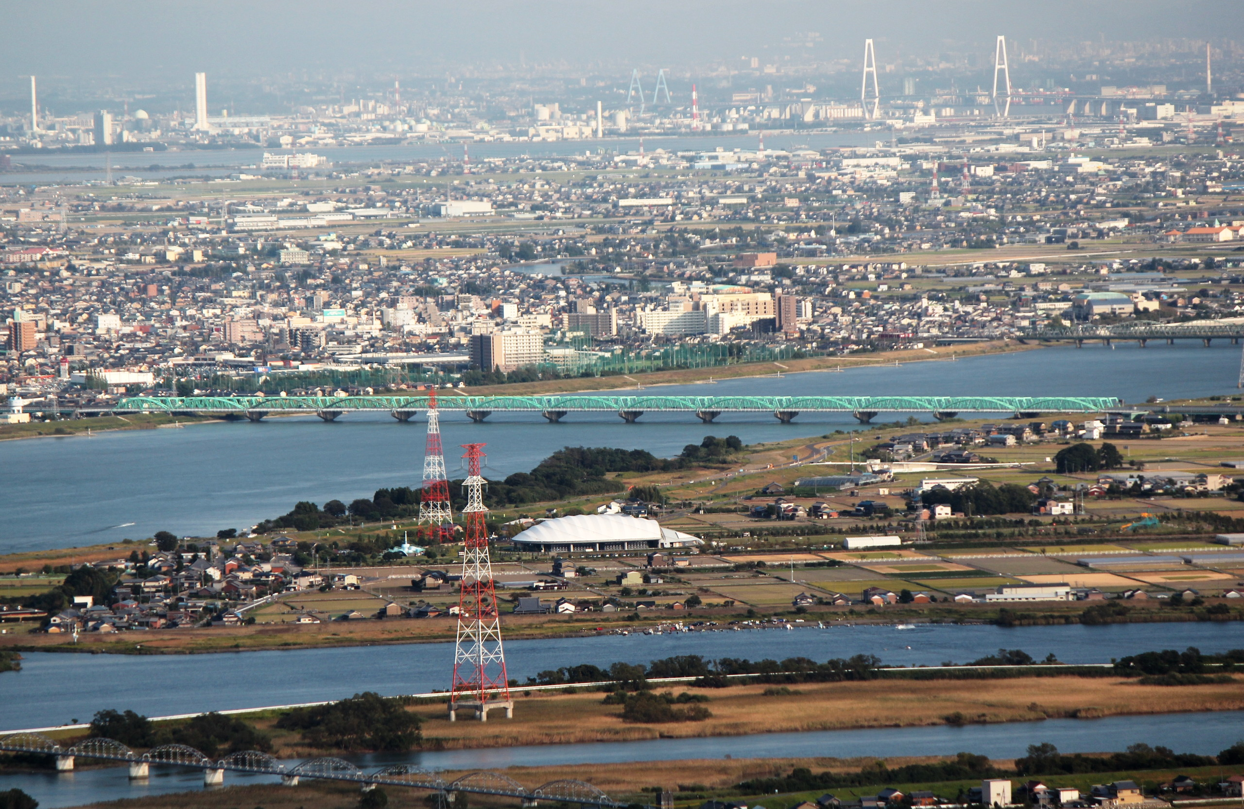 Kiso River Bridge of Higashi-Meihan Expressway on Kiso River seen from Mount Tado, in Kuwana, Mie prefecture, Japan.